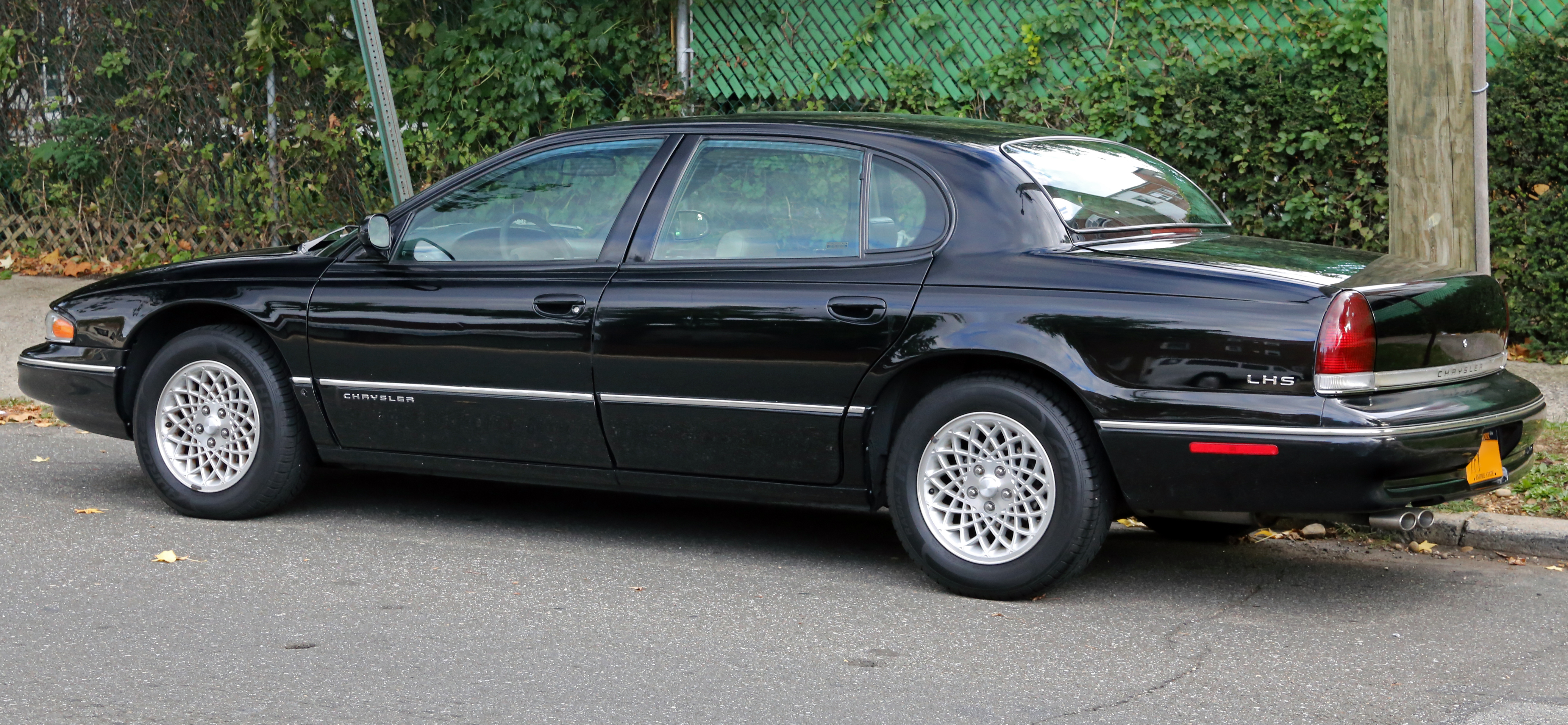 1997 Chrysler LHS. Built in Bramalea, Ontario.